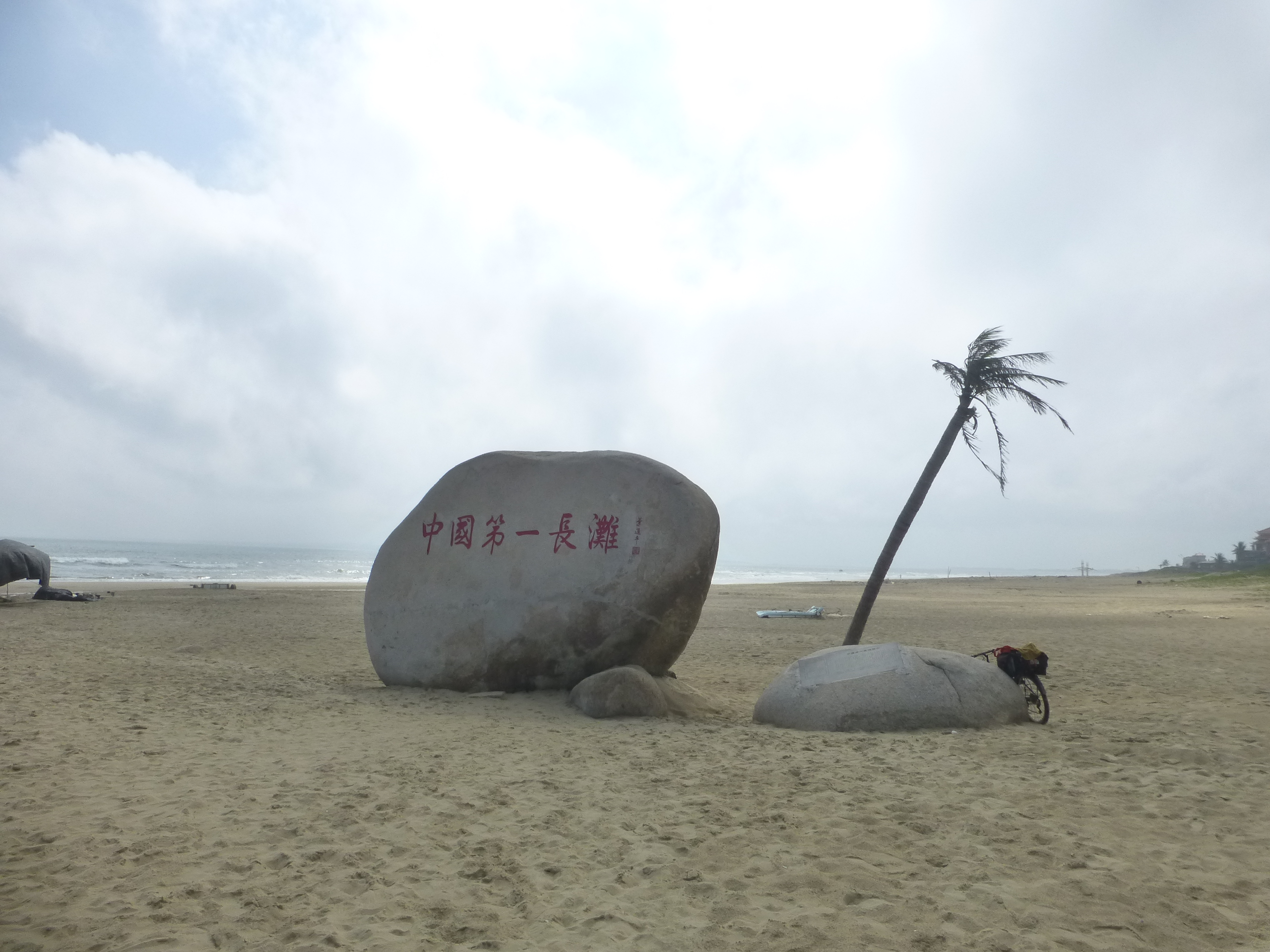 On the beach on the east shore of Donghai Island, Guangdong.